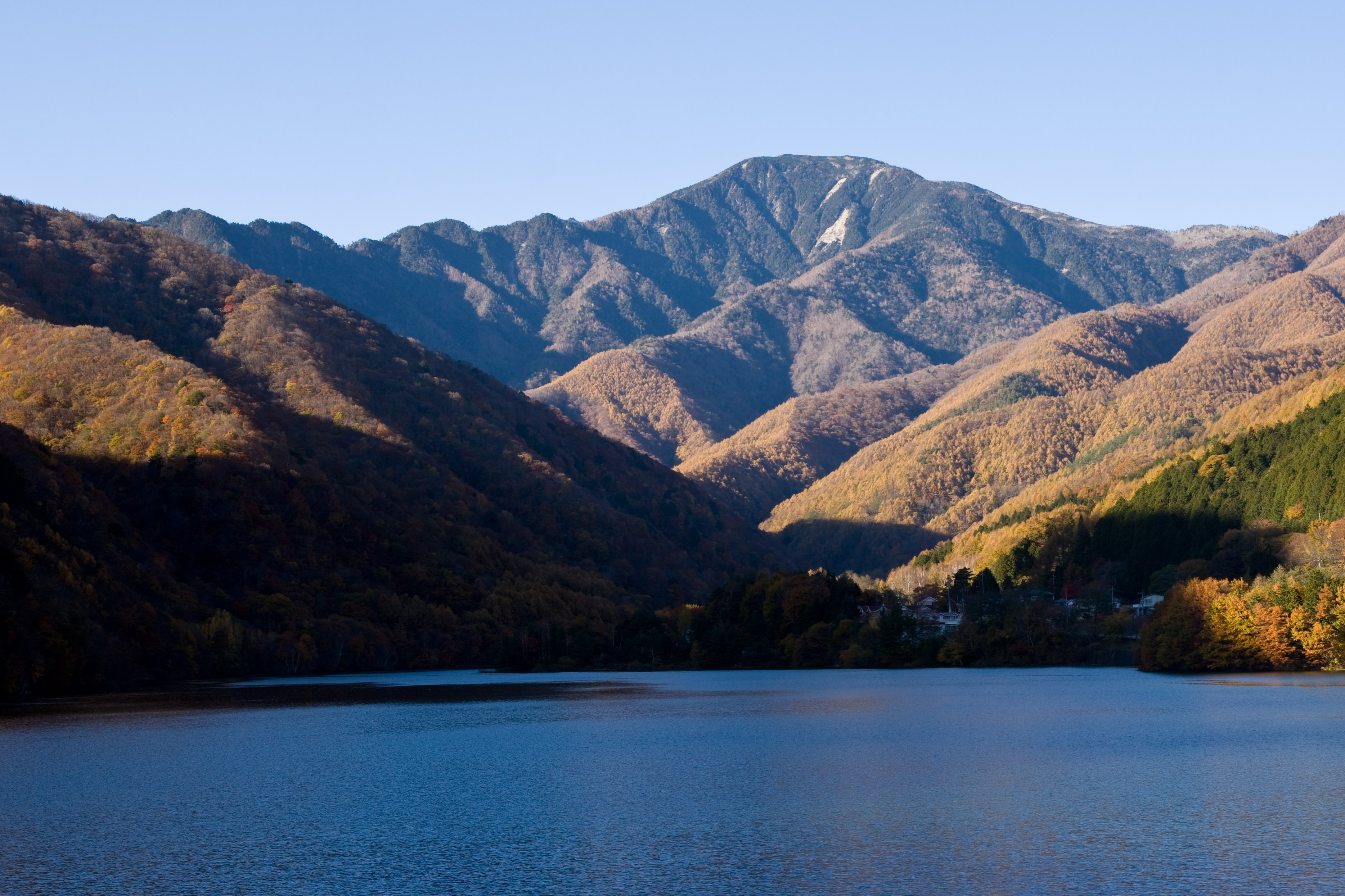 Mount Tokusa from Lake Hirose, Yamanashi Pref., Japan.